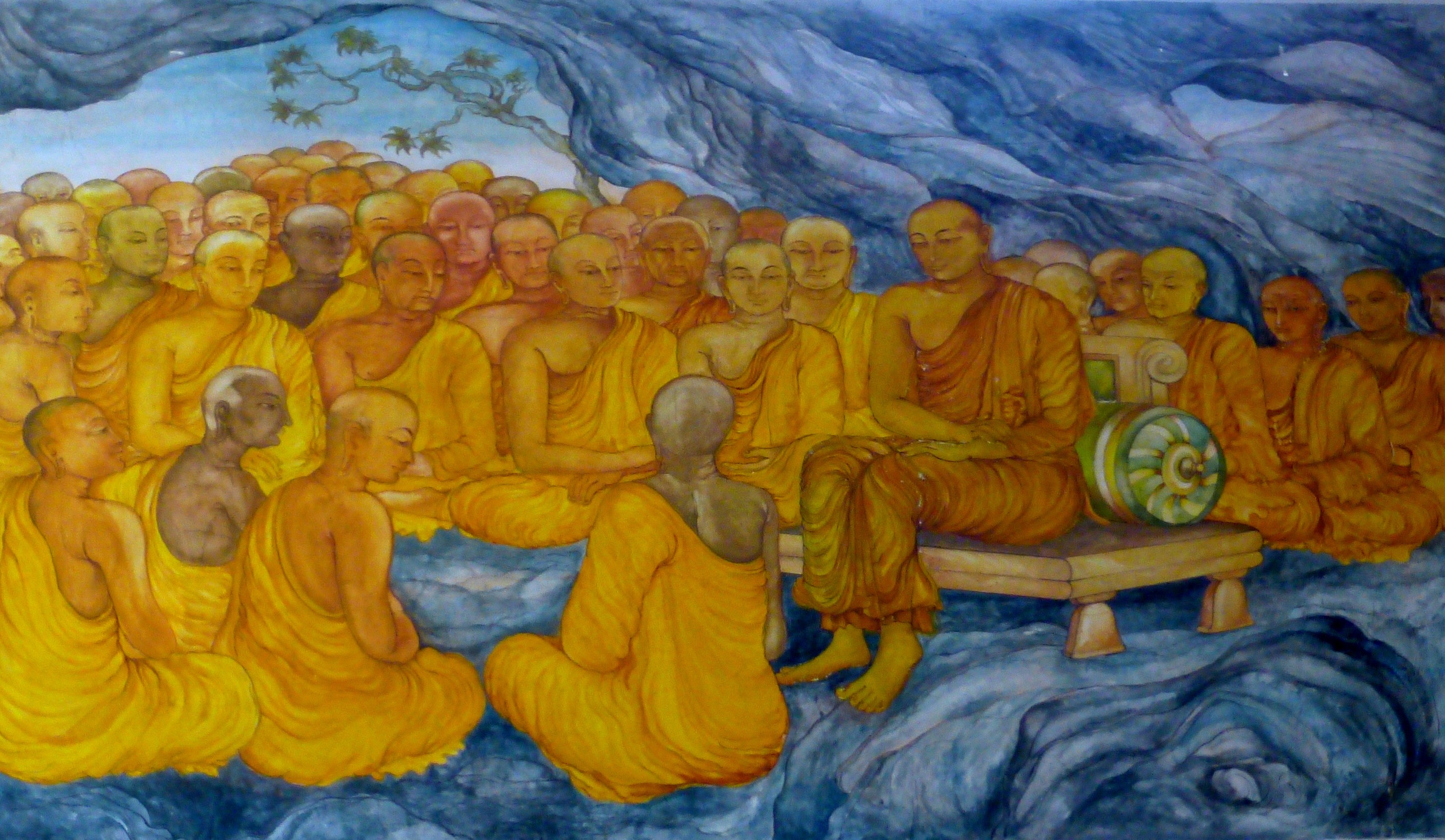 13 First Council at Rajagaha, at the Nava Jetavana, Shravasti Photograph of murals in the Nava Jetavana temple, Jetavana Park, Shravasti, Uttar Pradesh, taken by Anandajoti.